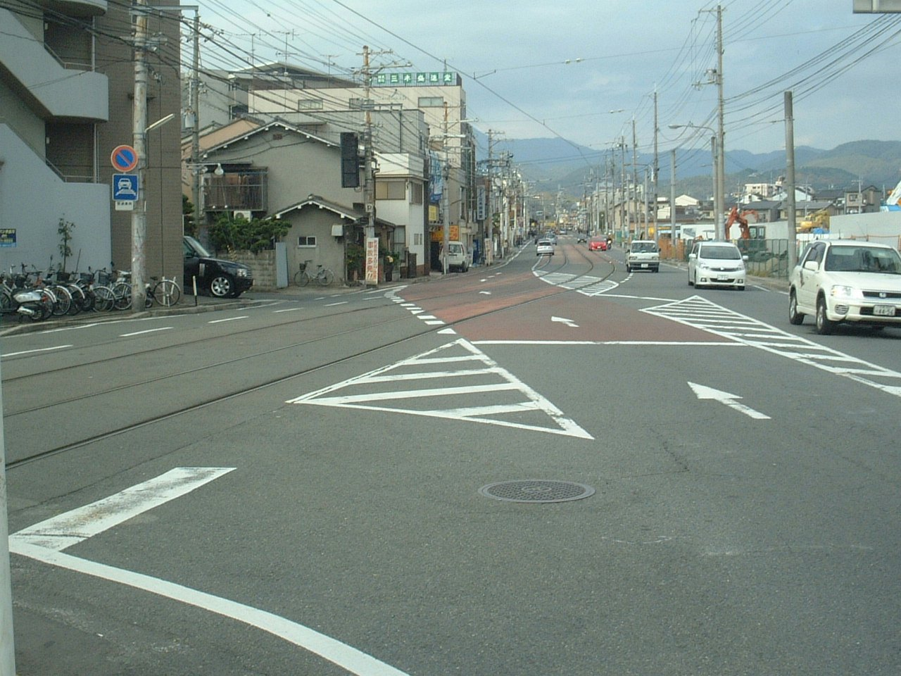 Sanjo-dori (Sanjo Street) near the crossing to Oike-dori in Kyoto, Japan, where Randen-Tenjingawa Station is to be built